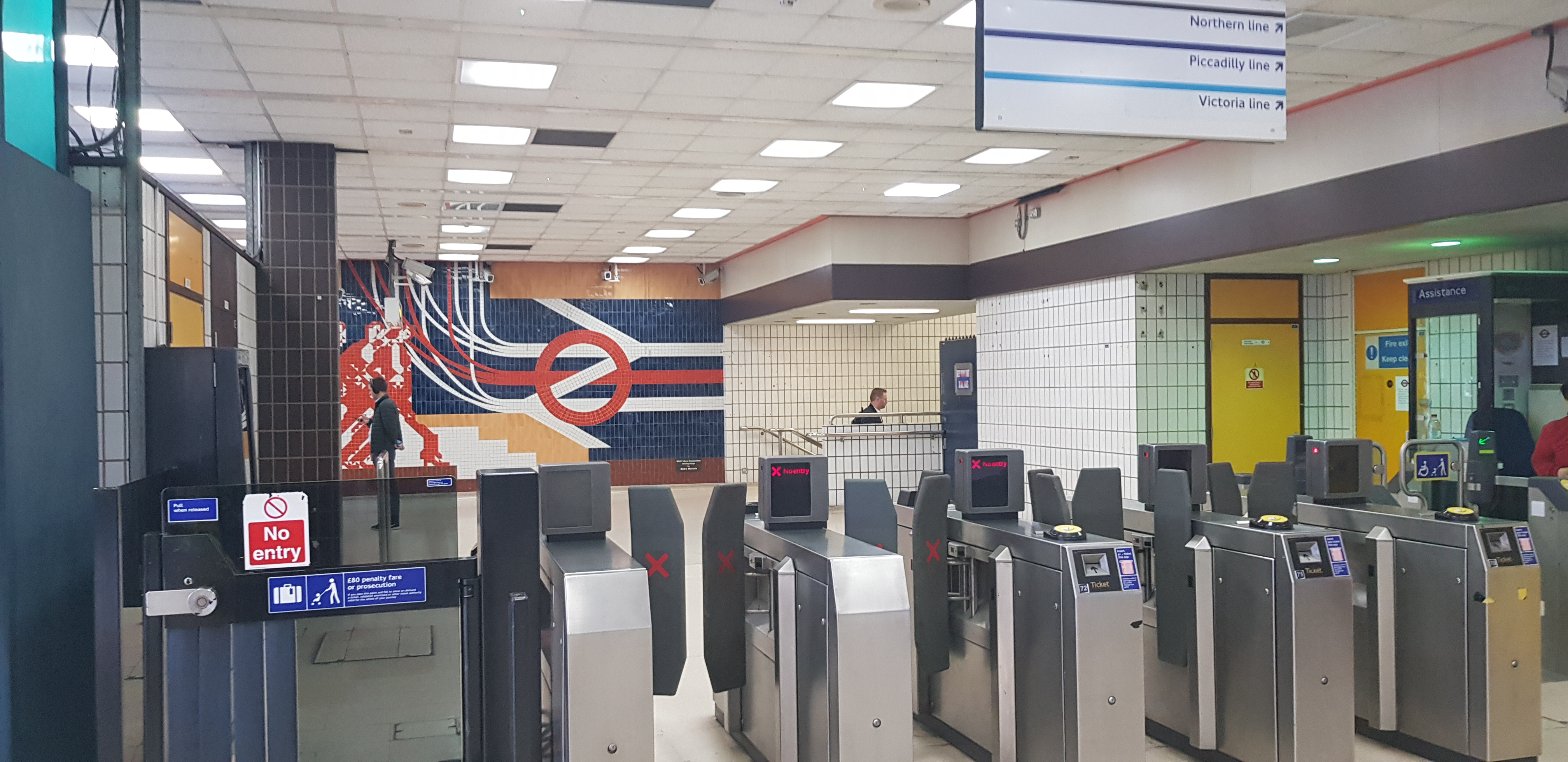 The entrance to the former King's Cross St Pancras station, now an entrance to King's Cross St Pancras tube station, viewed in March 2019